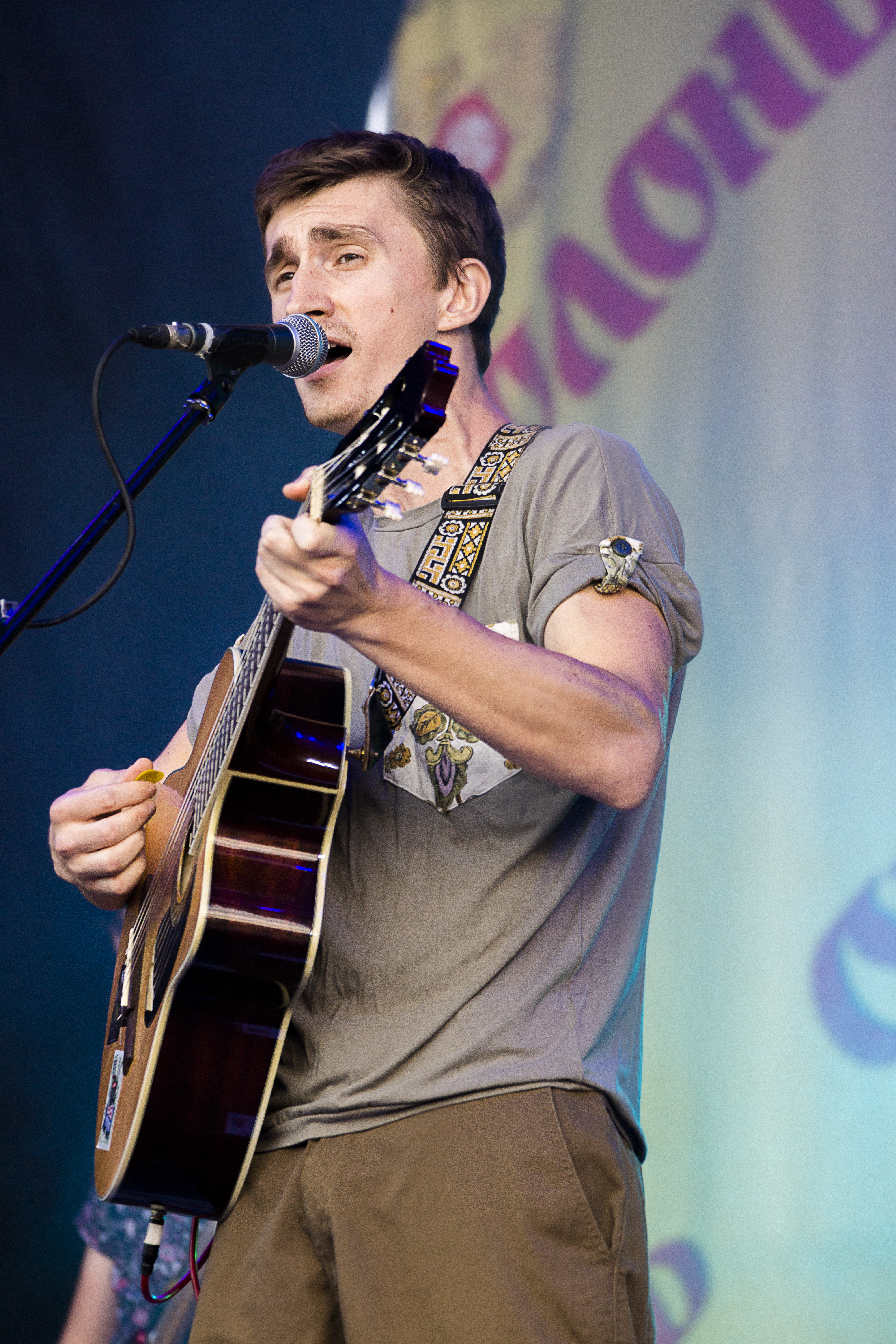 Триста8ісім на фестивалі Підкамінь-2013